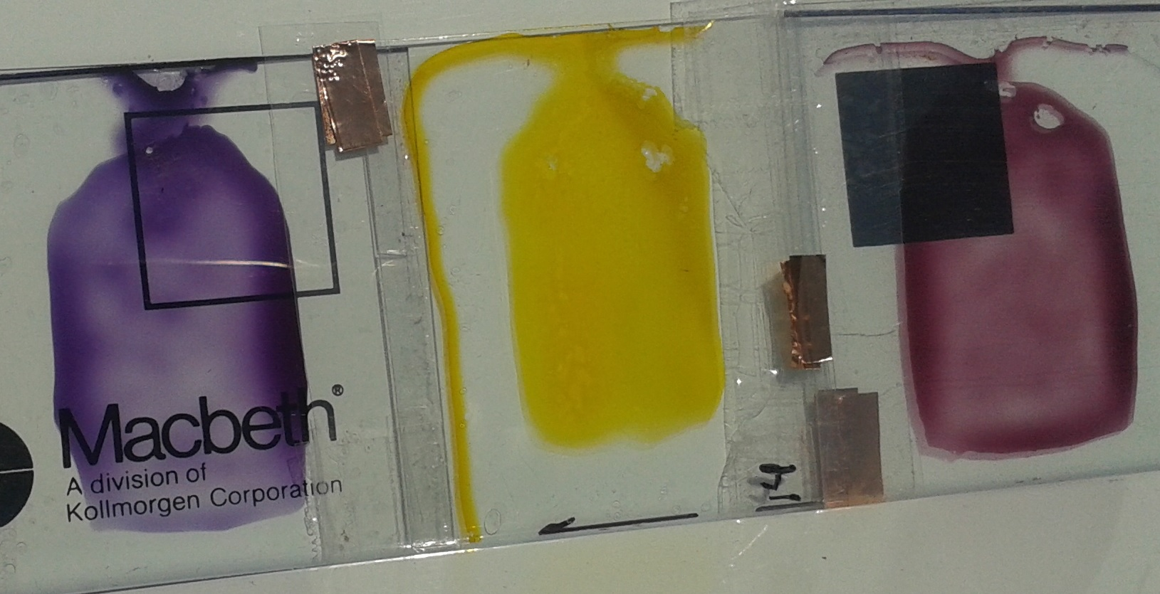 Photo of dichroic displays, incorporating dichroic dyes in a guest host matrix, photo by PPI